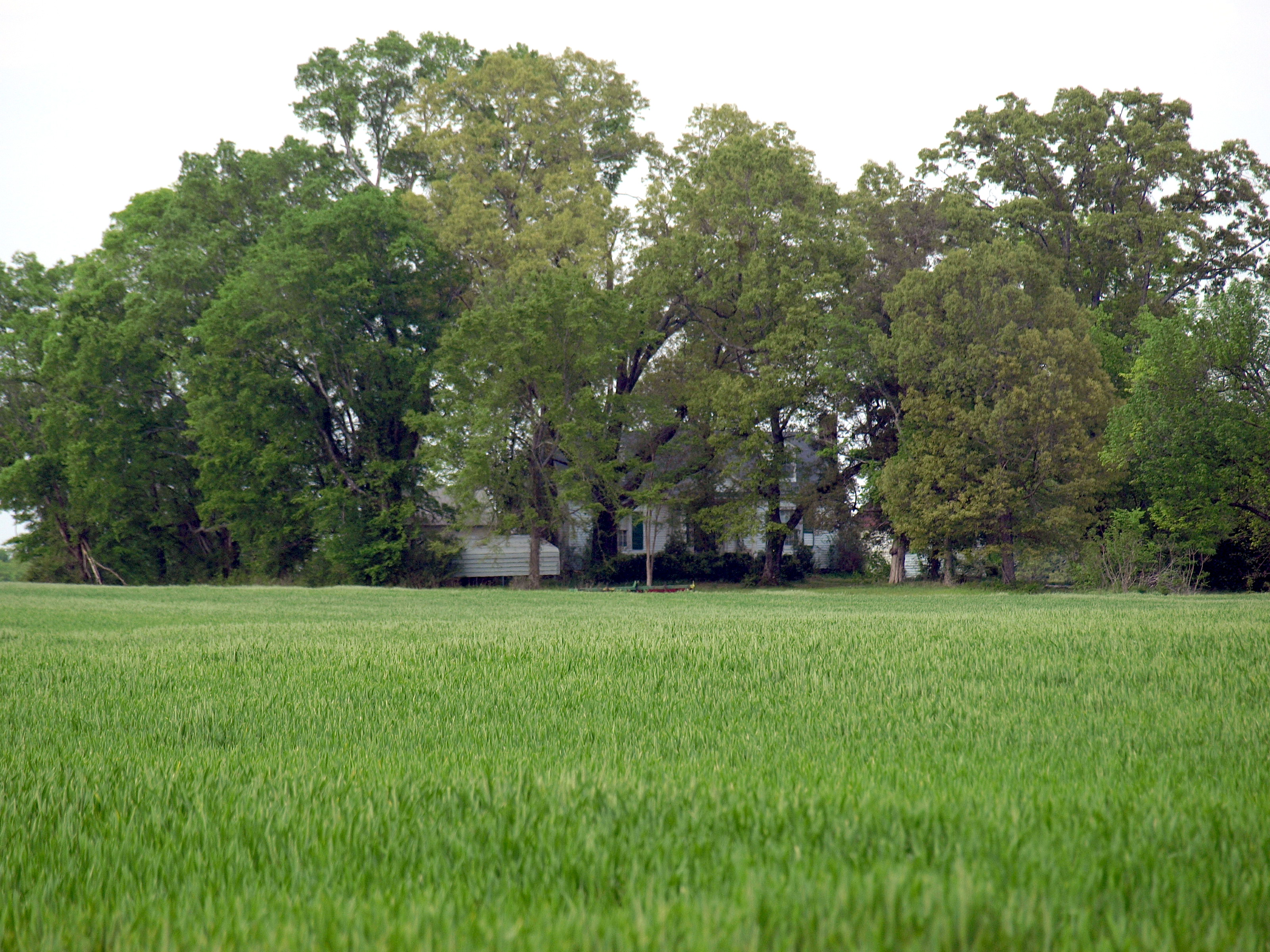 Preuit Oaks near Leighton, Alabama, listed on the National Register of Historic Places.